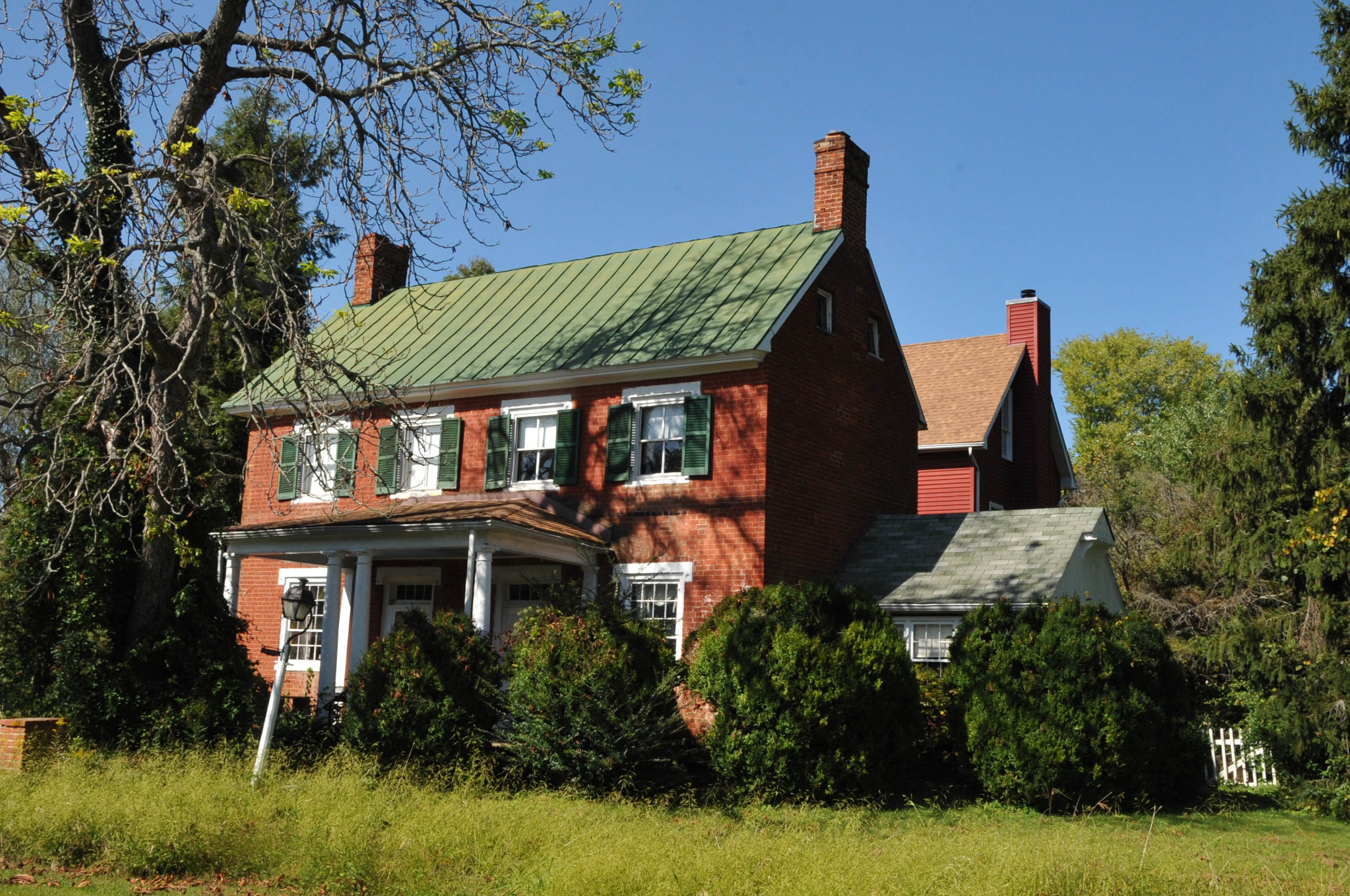 JAMES HAMPTON TAVERN BUIT CIRCA 1823